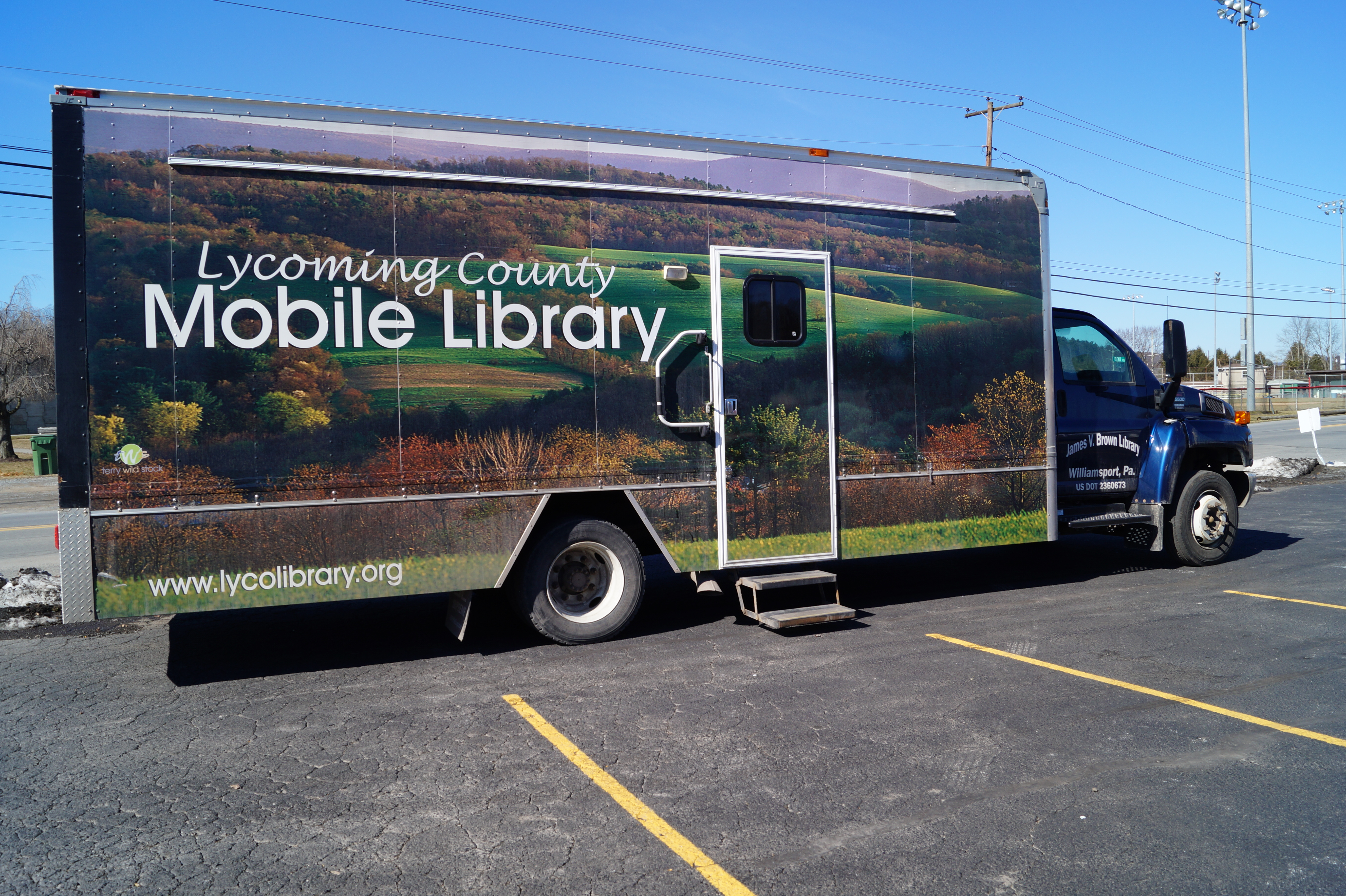 An image of the exterior of the Lycoming County Mobile Library, also known as the Bookmobile.